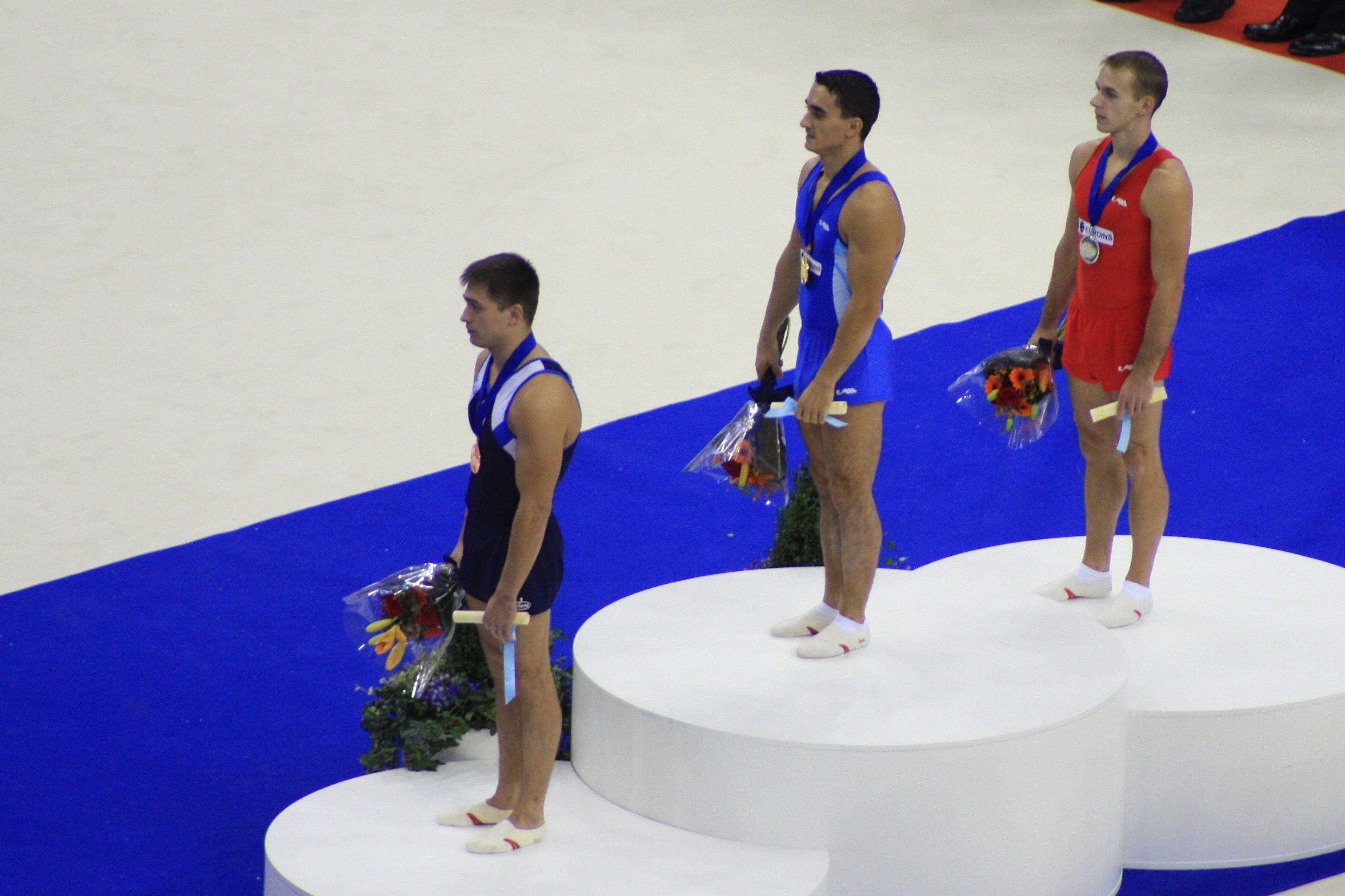 Podium of the male vault at the 2009 World Artistic Gymnastics Championships. From left to right on the podium: Anton Golotsutskov (Russia, 3rd place), Marian Drăgulescu (Romania, 1st place) and Flavius Koczi (Romania, 2nd place).